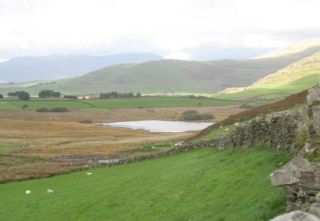 First Glimpse of Llyn Du and Cwmystradllyn Llyn Du is located in the extreme eastern corner of Cwmystradllyn. The word 'ystrad' comes from the Irish 'srath' which also gives the Scottish 'strath'. The Cwmystradllyn district extends from the watershed of the Henwy and its tributaries to its confluence with Afon Dwyfor in SH5142.